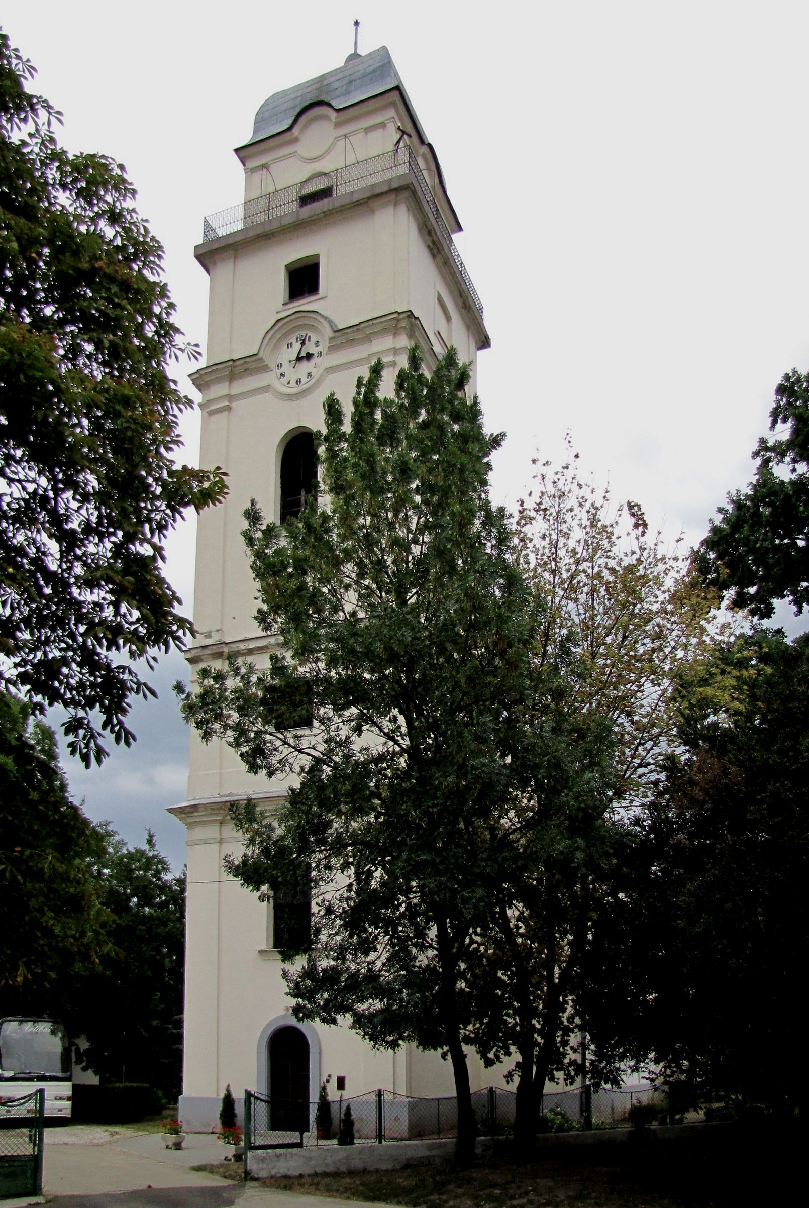 Calvinist church, Tiszafüred, Hungary